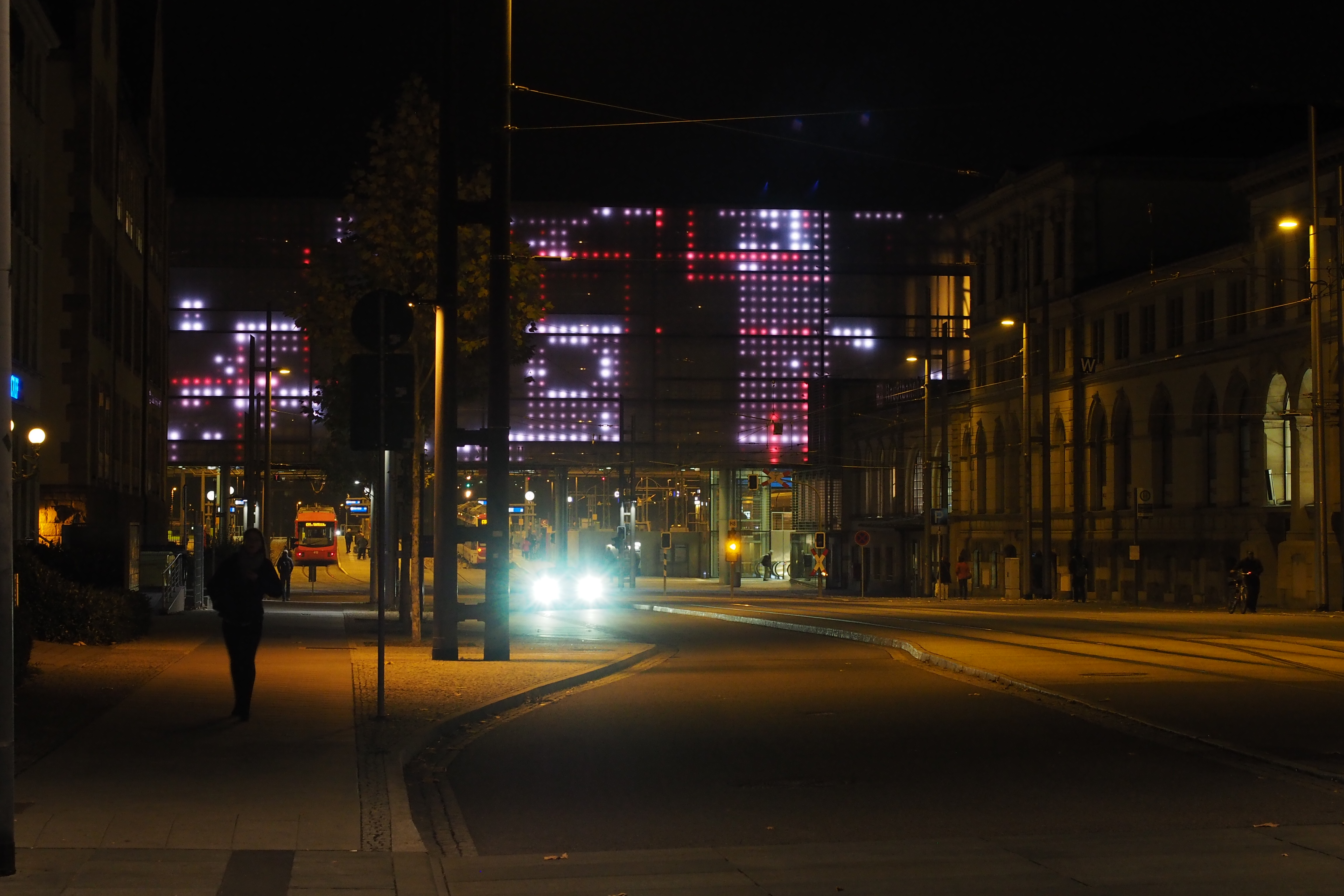 Chemnitz main station with installation 13 Millionen Zustände at media facade by Simon Hillme